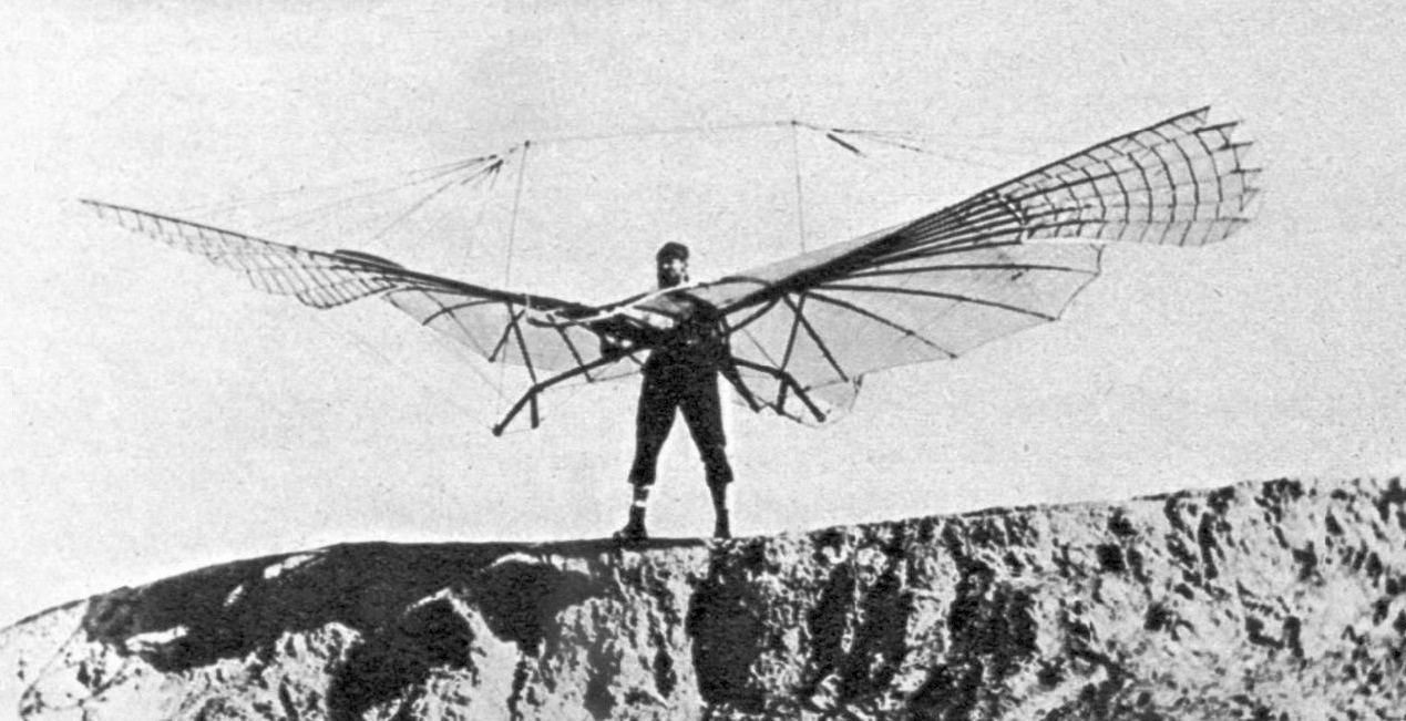 Otto Lilienthal with his small wing flapping apparatus near to the "Fliegeberg"